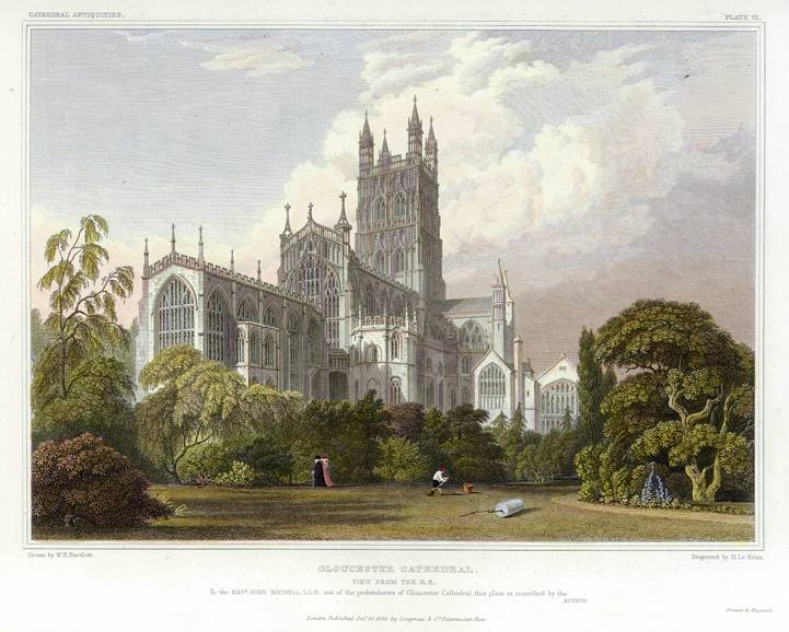 Gloucester Cathedral from the north east in 1828, Copper engraved print with recent hand colour